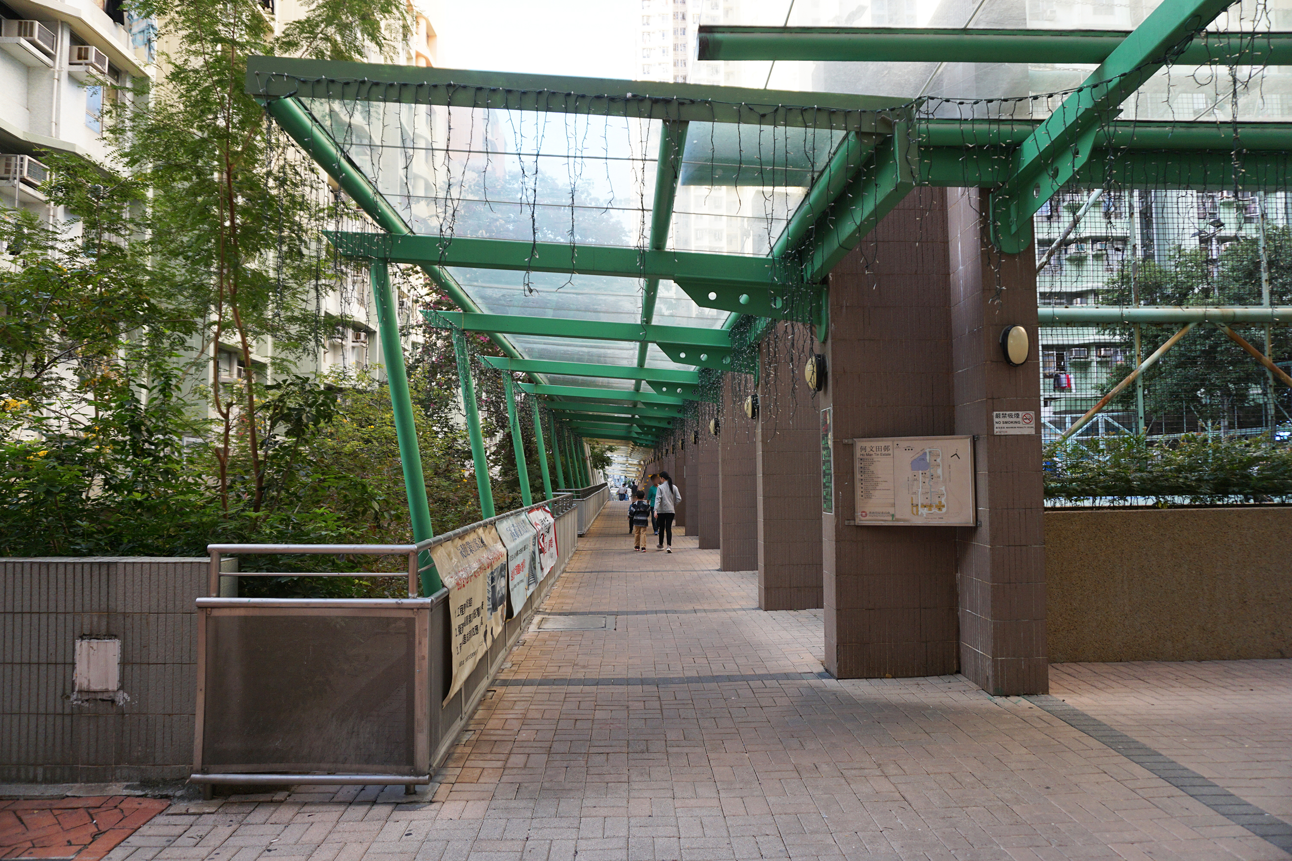 Ho Man Tin Estate in Kowloon City District, Hong Kong.